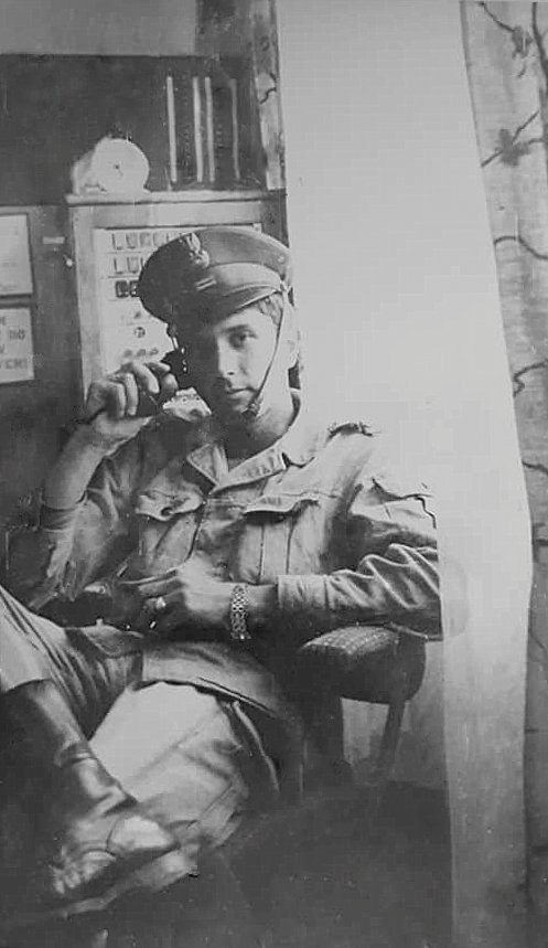 Border Protection Forces in Bliszczyce